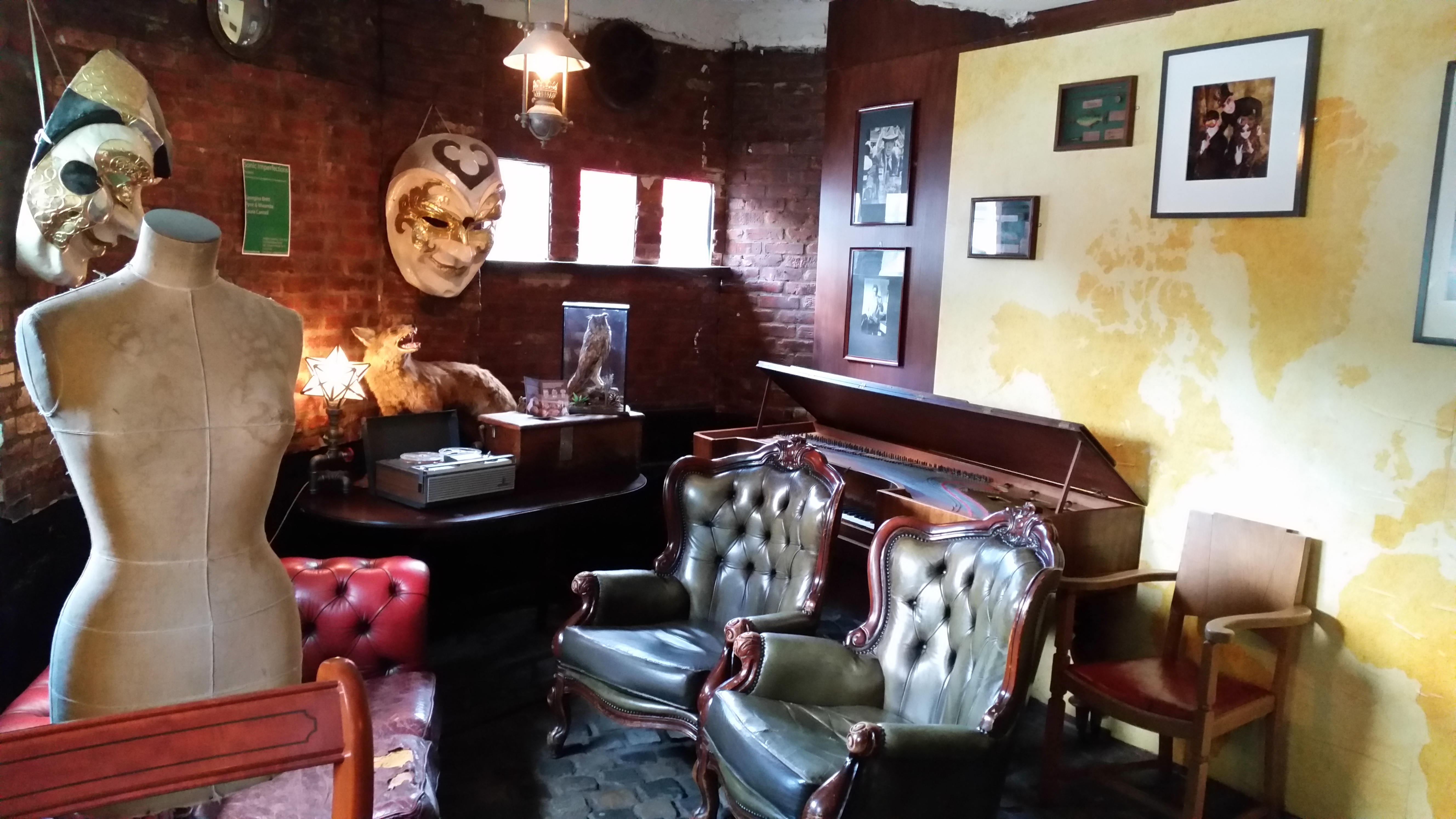 The Montague Arms, Peckham